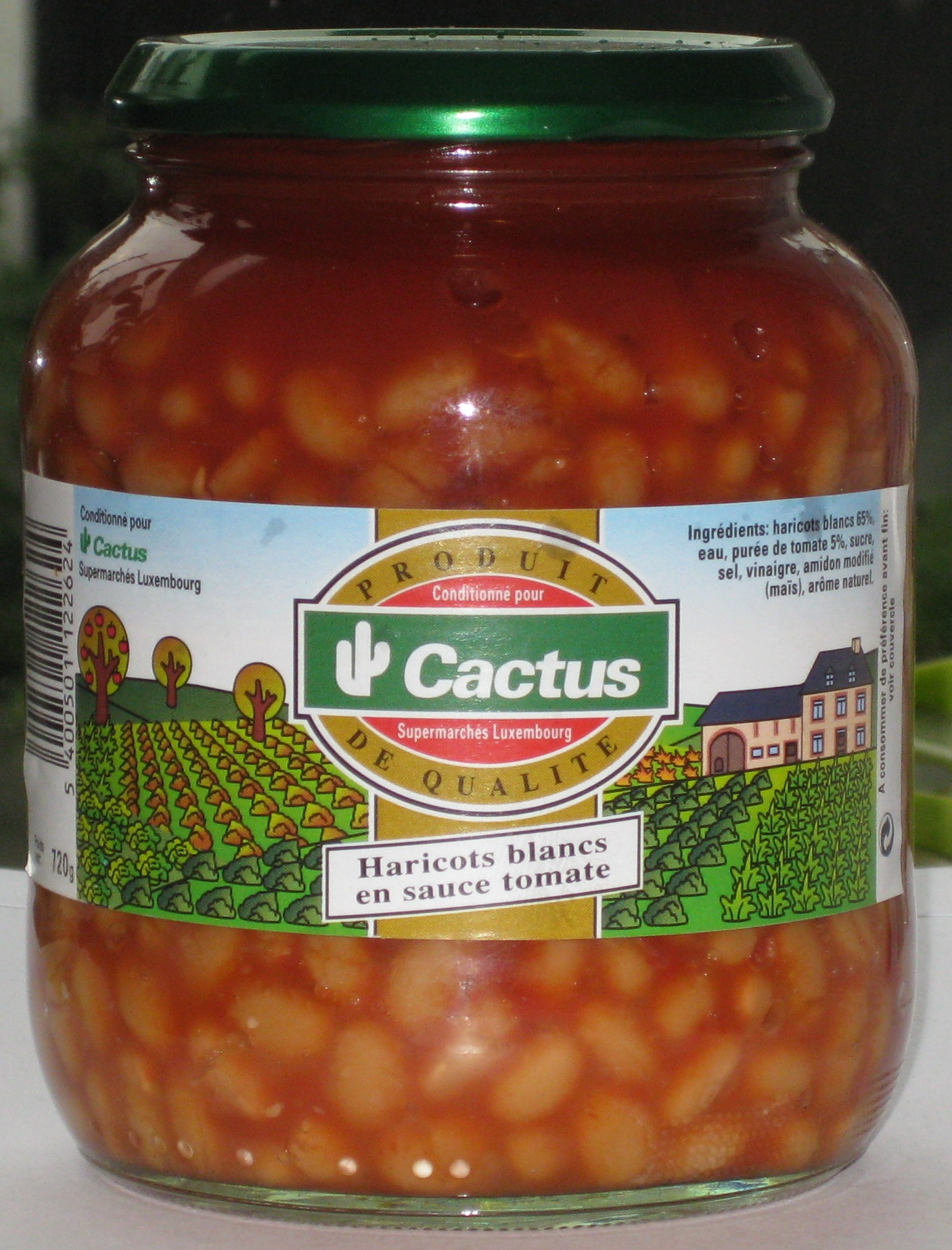 Cactus logo on a jar of beans in sauce